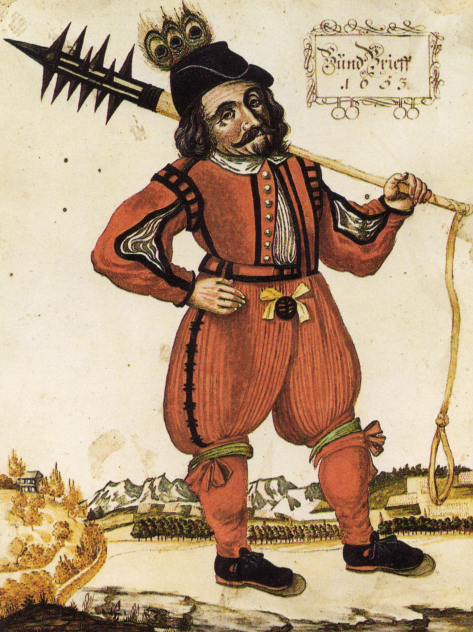 Niklaus Leuenberger, one of the peasant leaders in the Swiss peasant war of 1653.